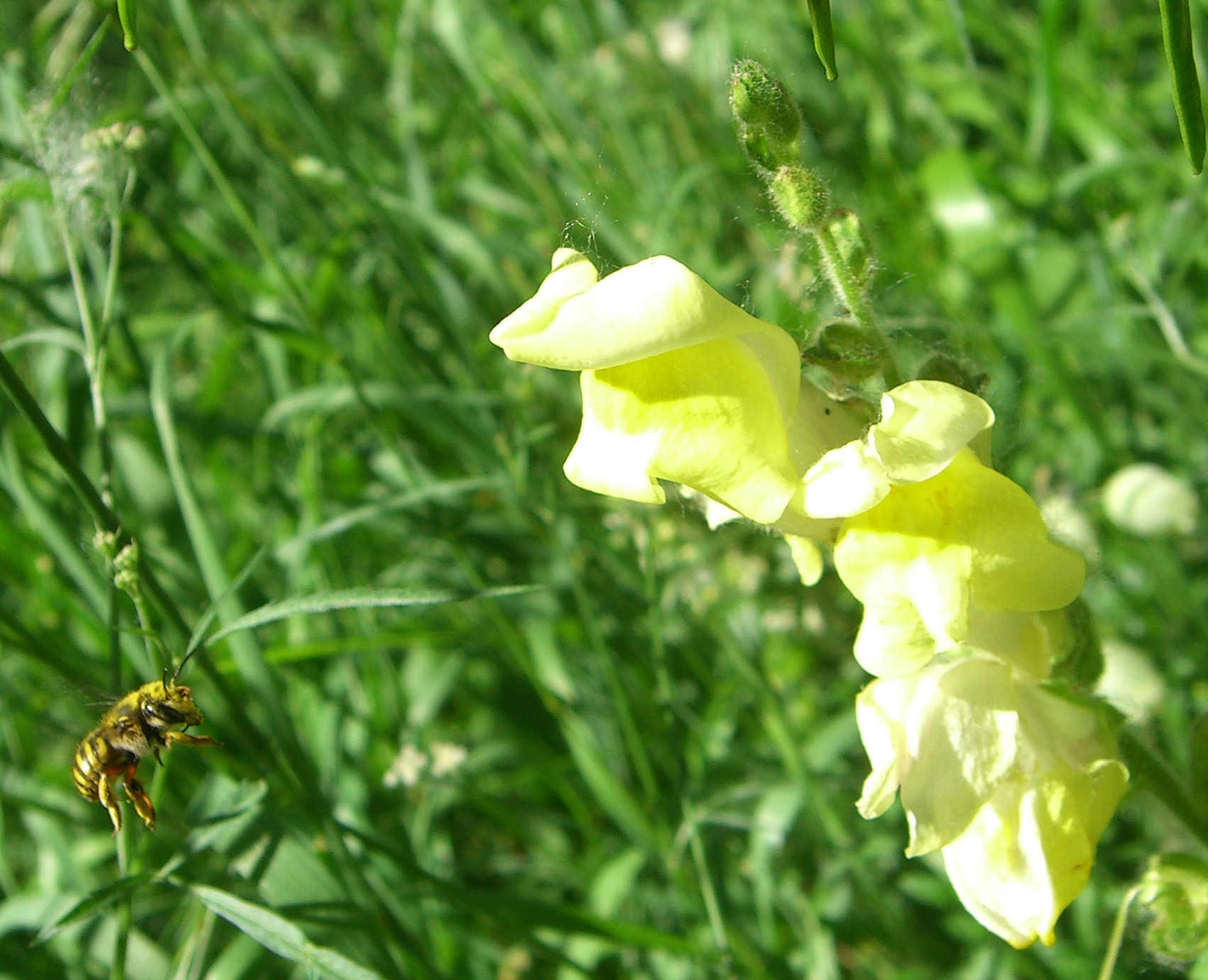 Picture of a pollinator preparing to land on an inflorescence of Antirrhinum majus subspecies striatum, in the Pyrenees, France.